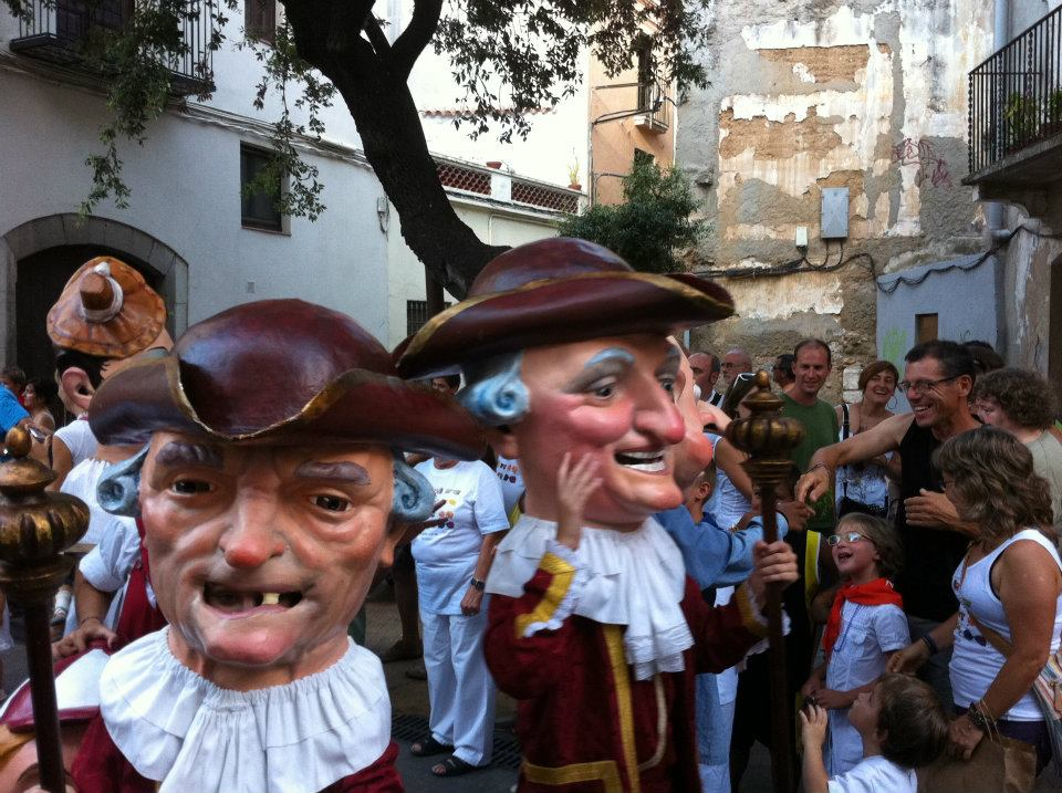 Cap-grossos during Festa Major 2012.